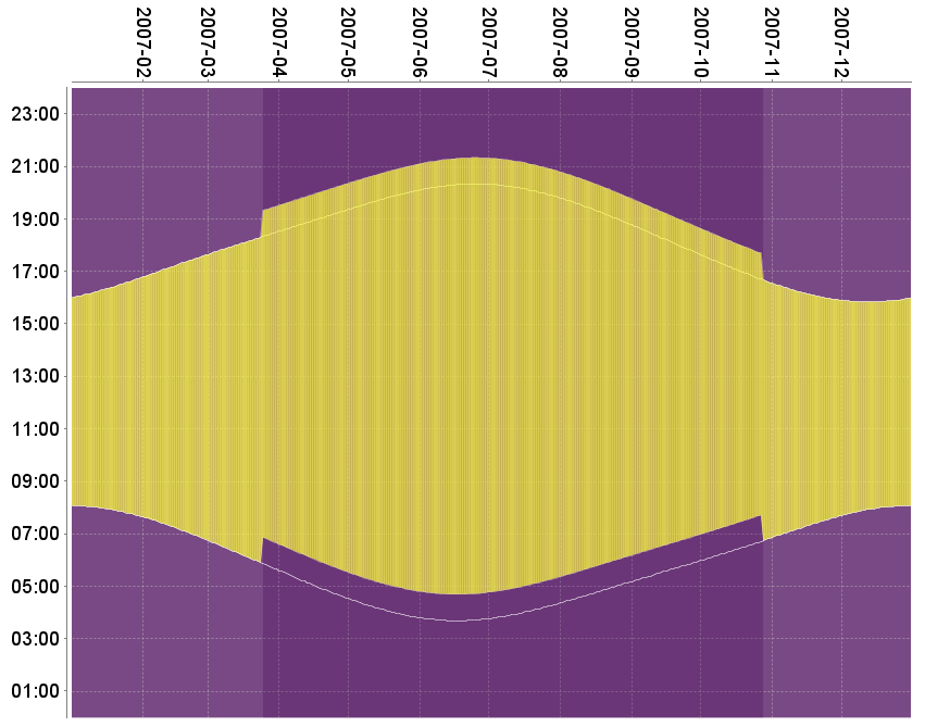 The chart plots the times of sunrise and sunset (with DST adjustment as separate lines) in Greenwich, GB for 2007.